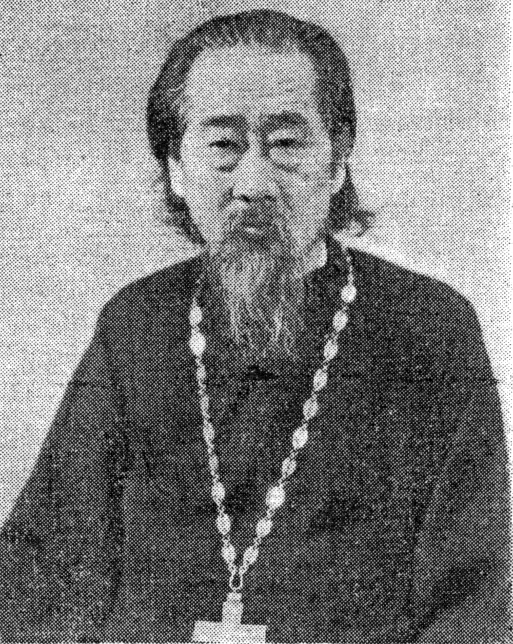 Archpriest Feodor Du